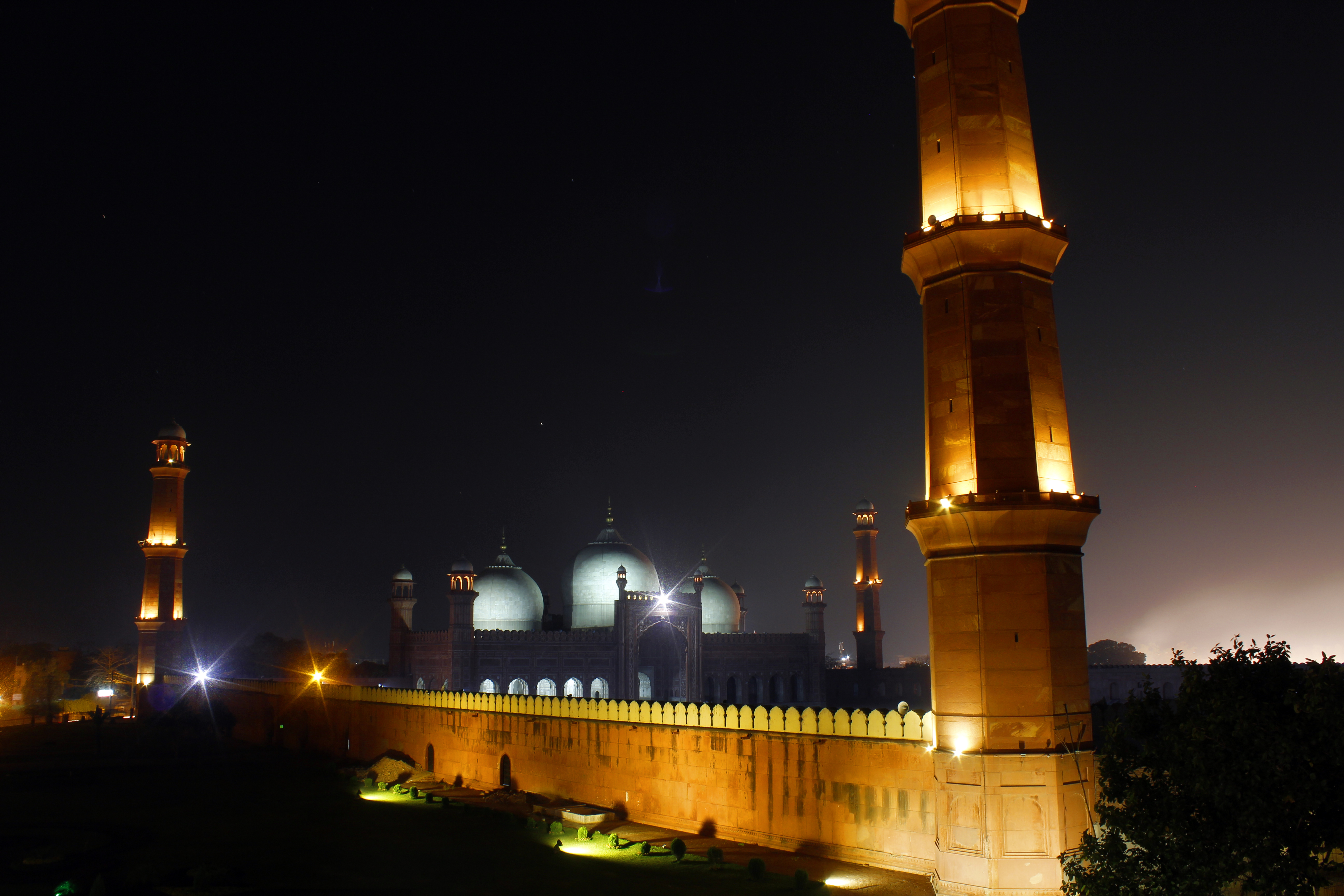 Badshahi Mosque (King’s Mosque) This is a photo of a monument in Pakistan identified as the PB-44